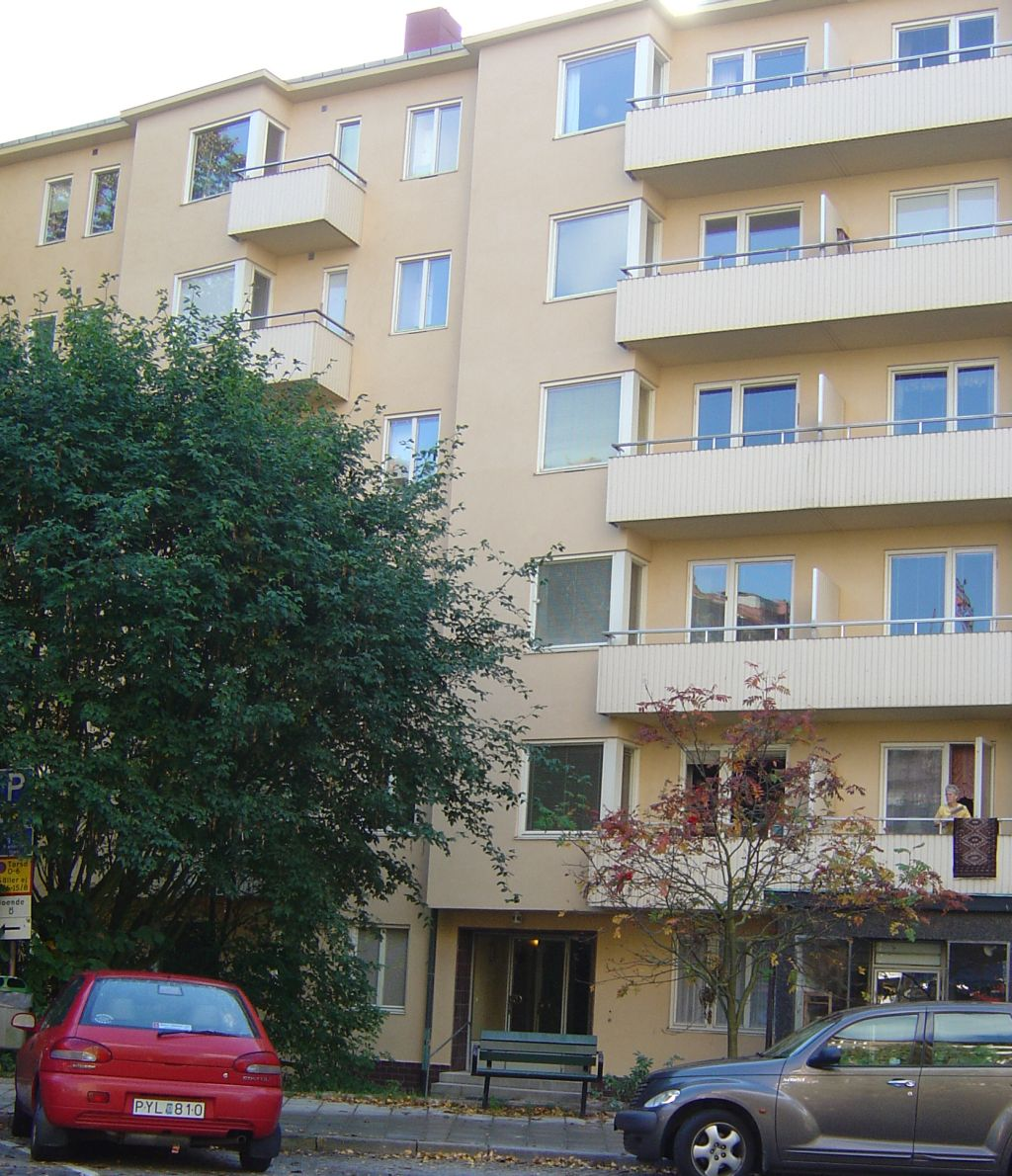 Picture of the house at Rindögatan 42 in Stockholm, where the Norwegian resistance fighter Kai Holst was found dead on the 27th June 1945. Several of his friends believe his untimely death was murder, possibly by Nazi intelligence personell, OSS or the Swedish secret services due to Holst uncovering their intelligence coup at Lillehammer after the German defeat. The picture was taken by Ulf Larsen, 30 September 2005, with a Sony Cybershot 5 megapixels digital camera, DSC-P10.